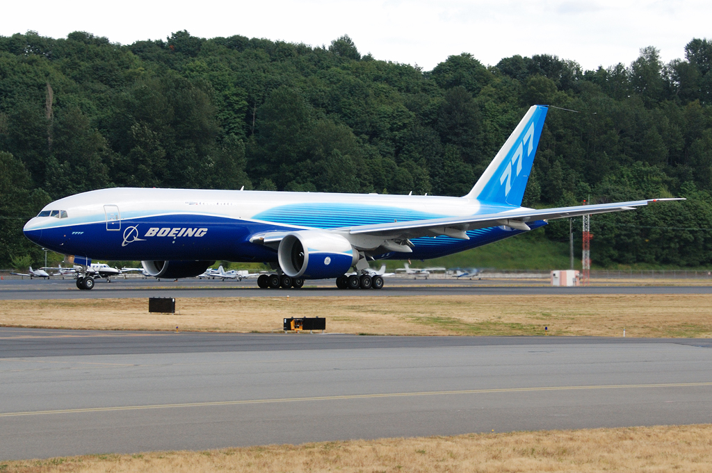 BOE001 departing on another test flight. Boeing Co N5020K test registration.